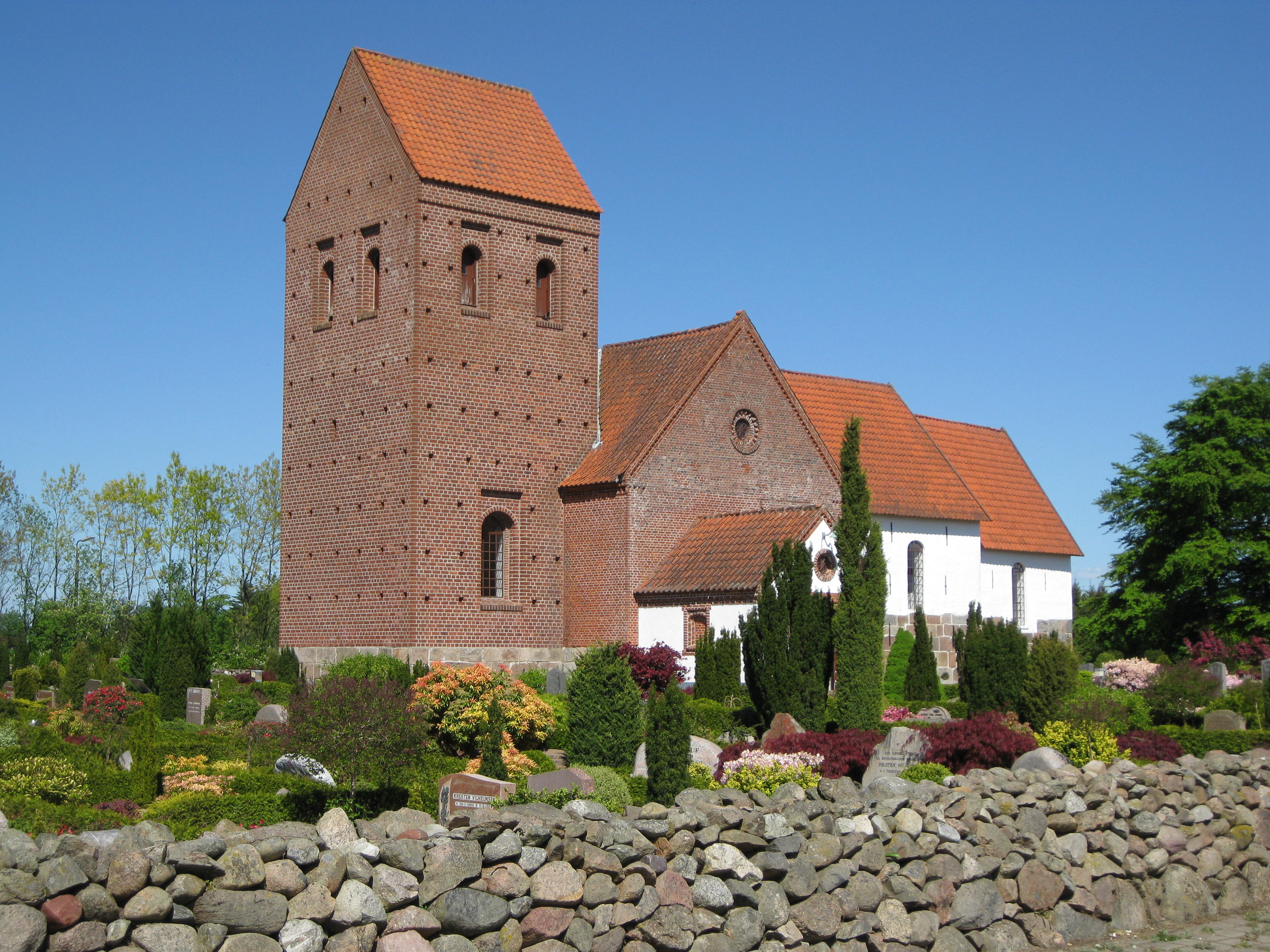 The church "Vorbasse Kirke" in the small town "Vorbasse". The town is located in Billund Kommune, South-Central Jutland, Denmark.